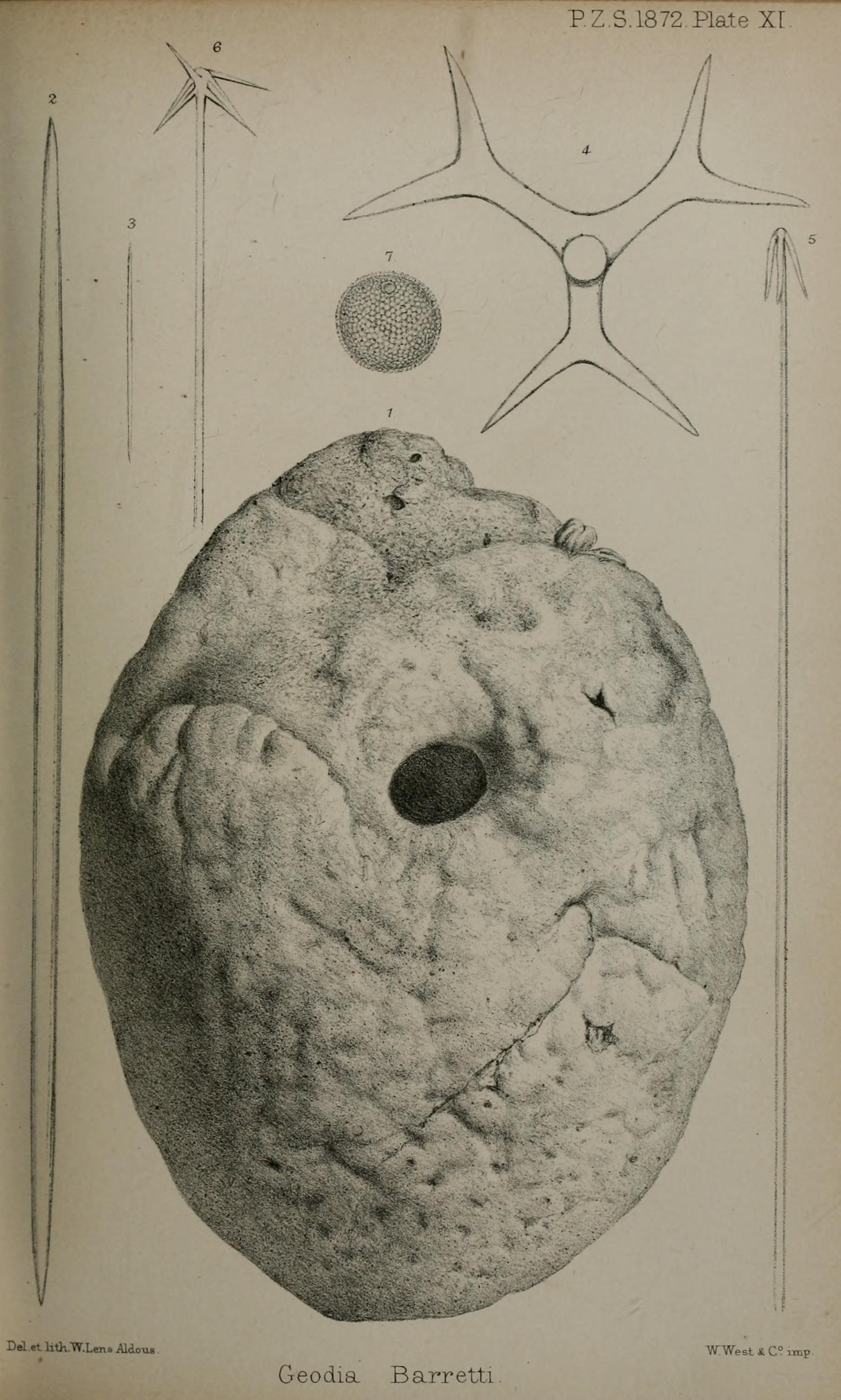 P. Z.S. 1872. Plate Xr \ 6 %■ fa i.U A DeUt lith.W.Lena Aldo Geodia Barretti WWest tC'imp